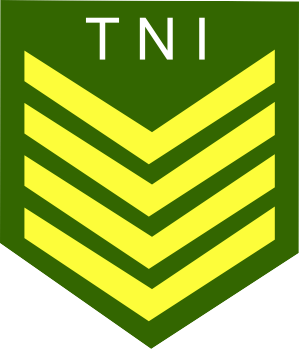 Sergeant Major rank insignia that used on daily uniforms of Indonesian Army